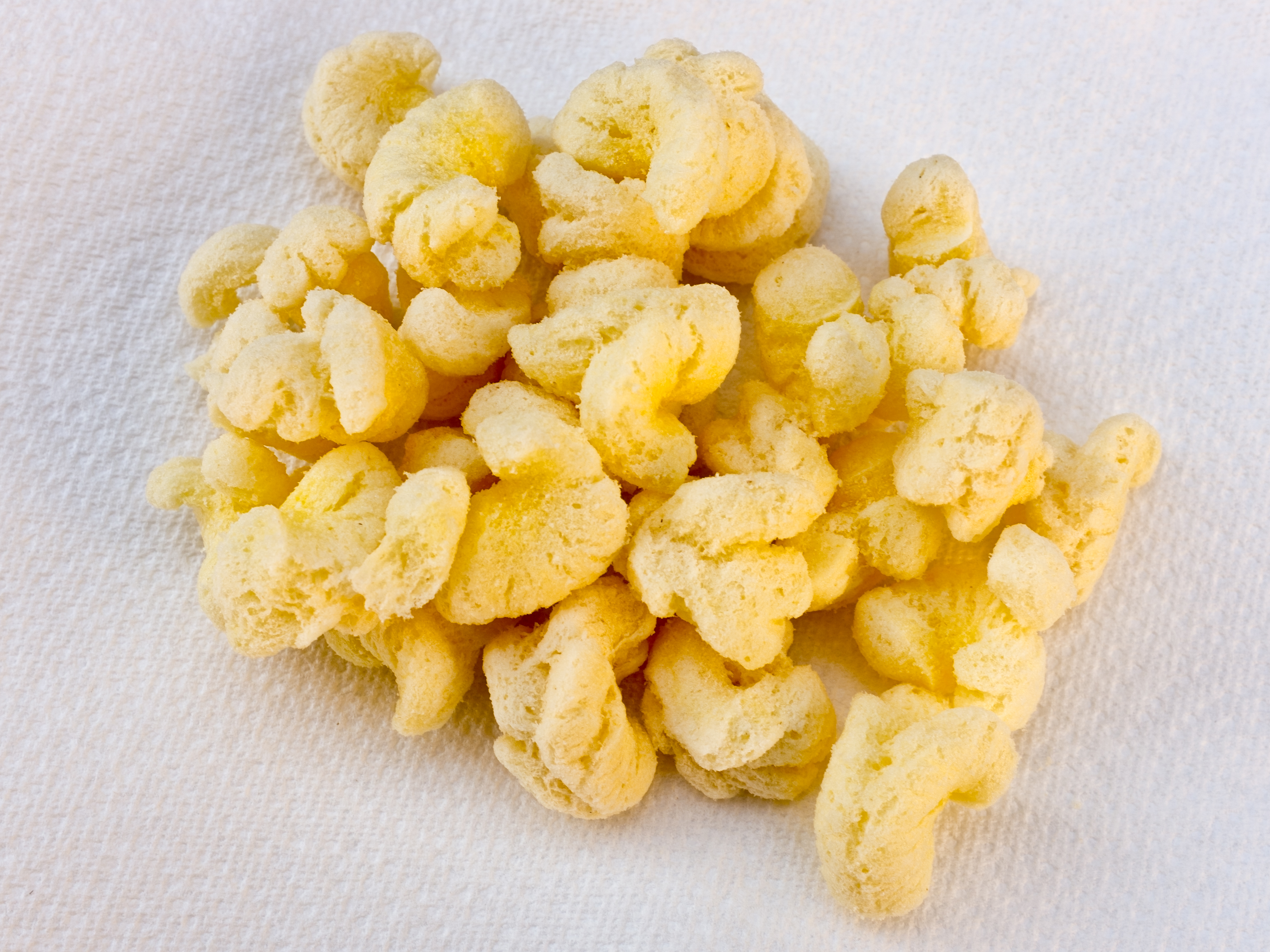 A pic of "puffcorn", in this case, Chster's butter flavored puffcorn (Frito Lay). It is supposed to look like popcorn, but it is made with corn meal (much like cheetos).